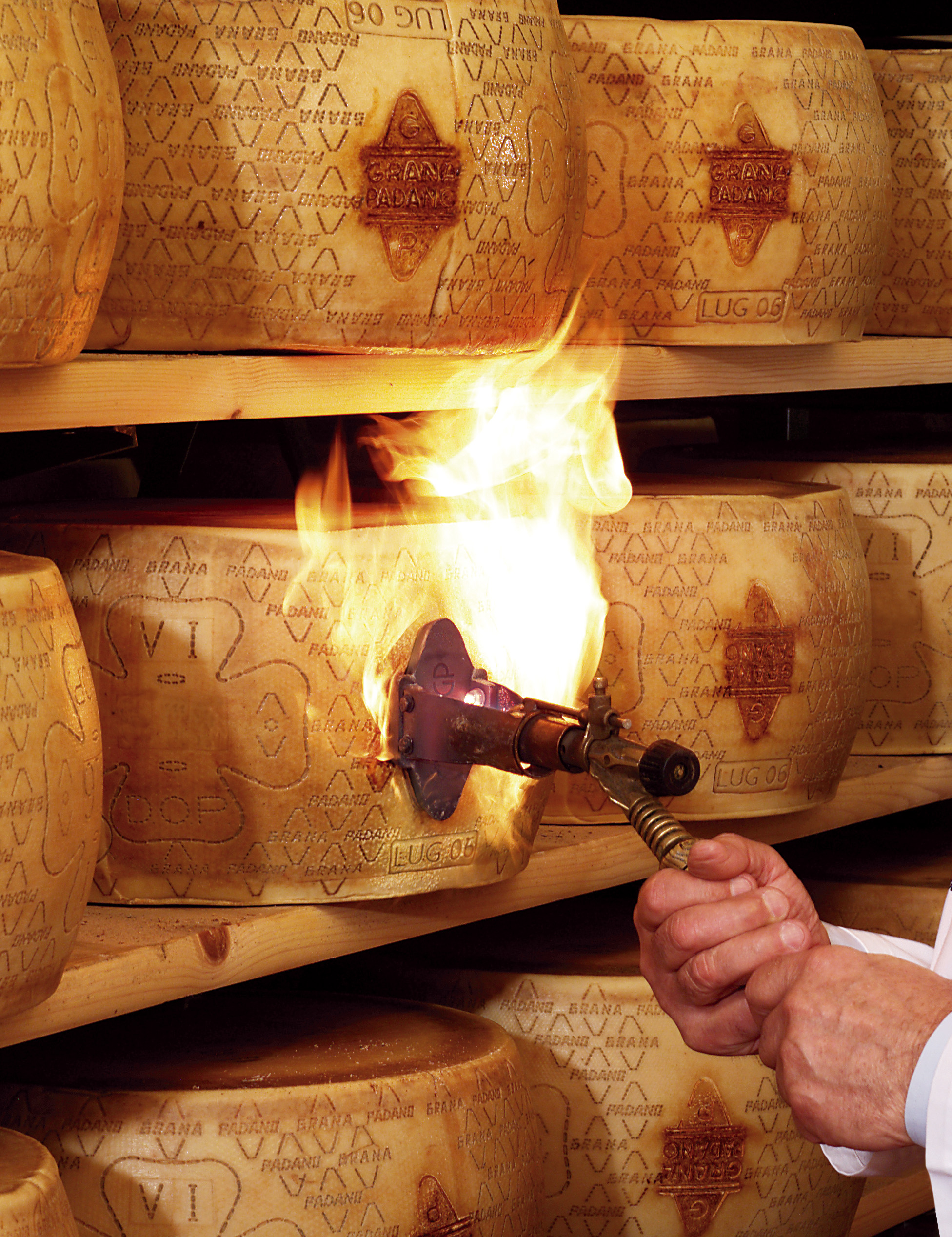 After nine month of ageing, each wheel gets checked and, if considered of perfect quality, gets fire-branded with the Grana Padano logo by the Consorzio's experts